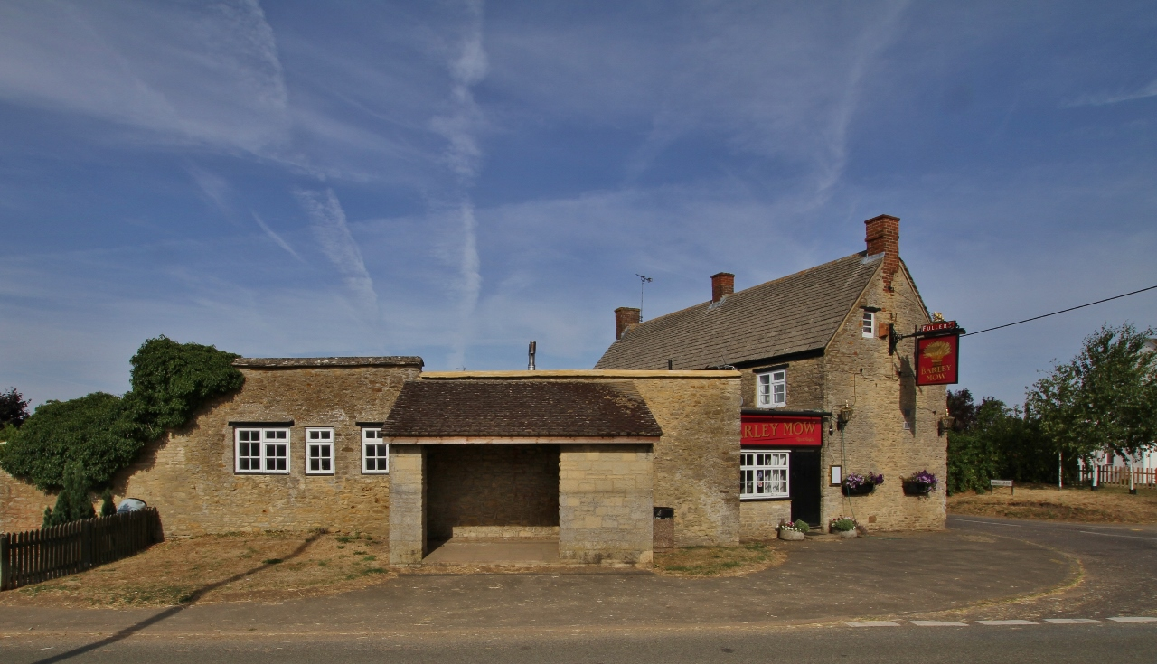 The Barley Mow pub, Upper Heyford, Oxfordshire, seen from east-southeast from Somerton Road. The small building in front is a bus shelter. Buses serving Upper Heyford no longer serve this stop.